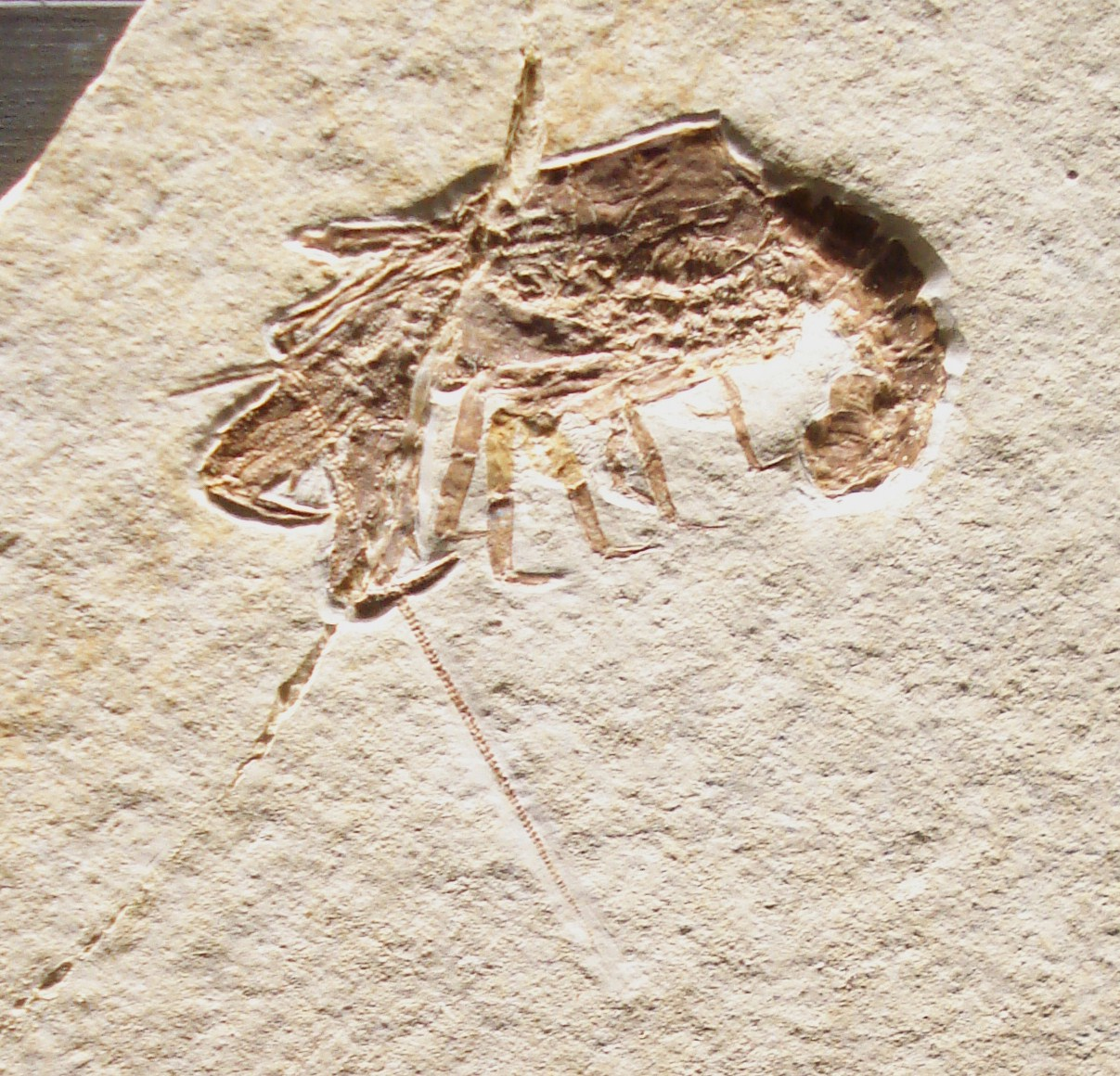 fossil of Glyphea pseudoscyllarus